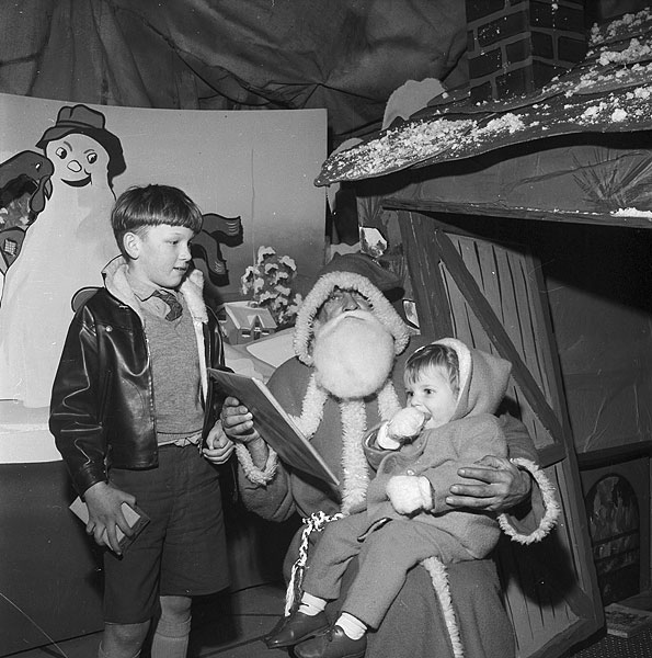 Teitl Cymraeg/Welsh title:Siôn Corn yng ngroto siop Bon Marche, Pwllheli Ffotograffydd/Photographer: Geoff Charles (1909-2002) Dyddiad/Date: December 7, 1961. Cyfrwng/Medium: Negydd ffilm / Film negative Cyfeiriad/Reference: (gch25746) Rhif cofnod / Record no.: 3471119 Rhagor o wybodaeth am gasgliad Geoff Charles yn Llyfrgell Genedlaethol Cymru More information about the Geoff Charles Collection at the National Library of Wales Mae ffotograffau Geoff Charles hefyd yn rhan o Broject Europeana Libraries Geoff Charles' photographs also form part of the Europeana Libraries Project